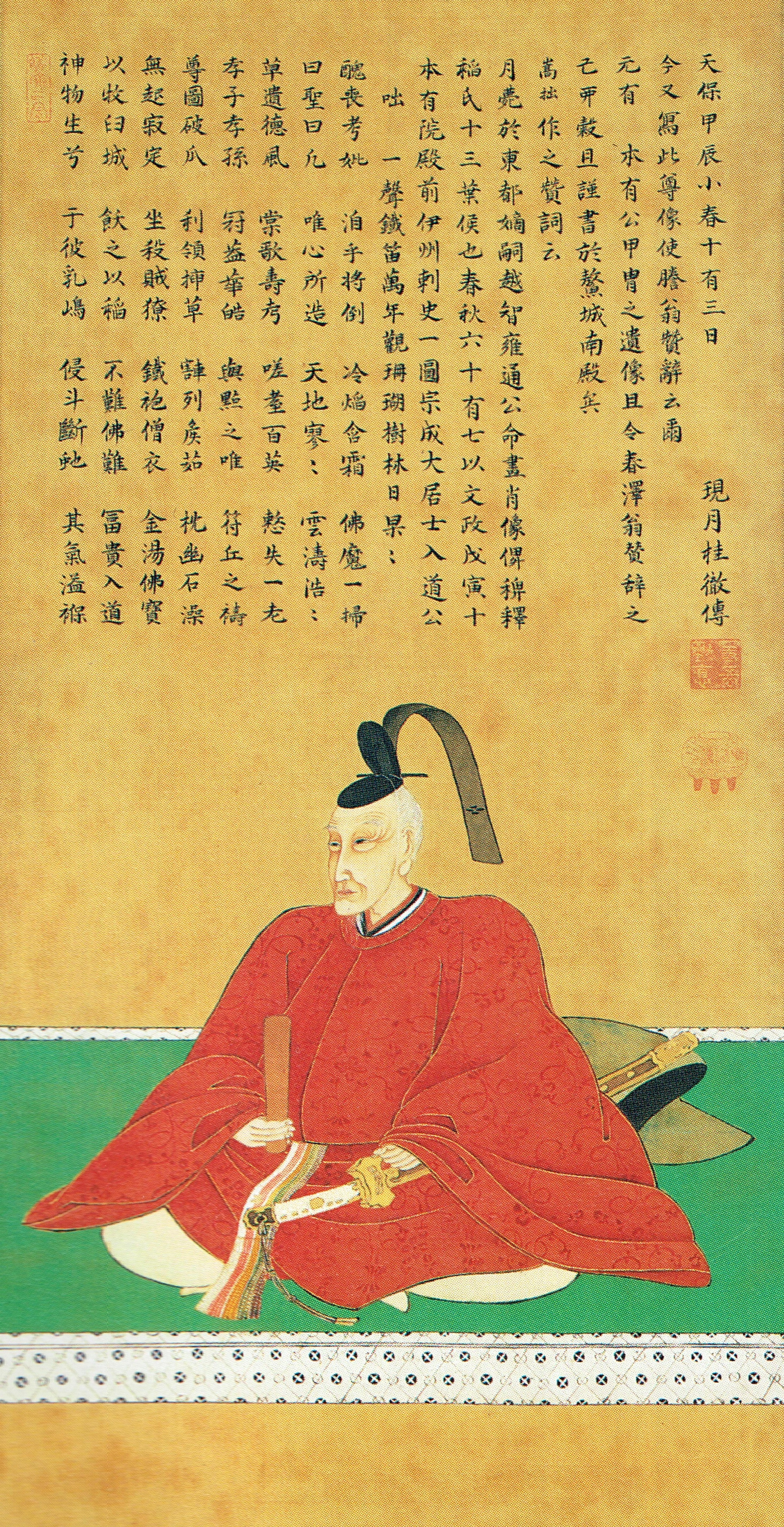 Portrait of Inaba Hiromichi, owned by Gekkei-ji Temple in Usuki, Oita, Japan